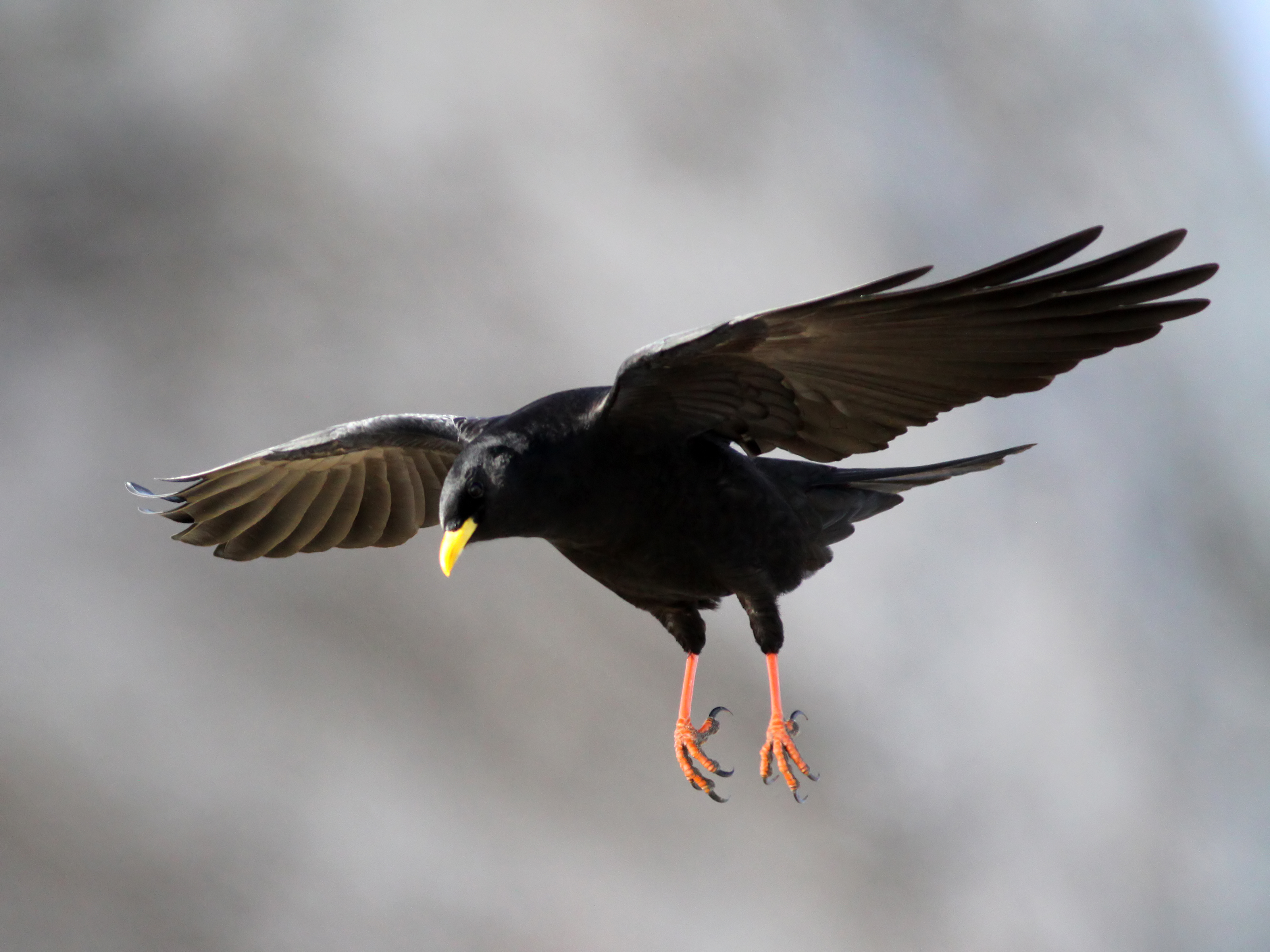 Alpine Chough (Pyrrhocorax graculus) Photo taken at Staubern SG, Switzerland